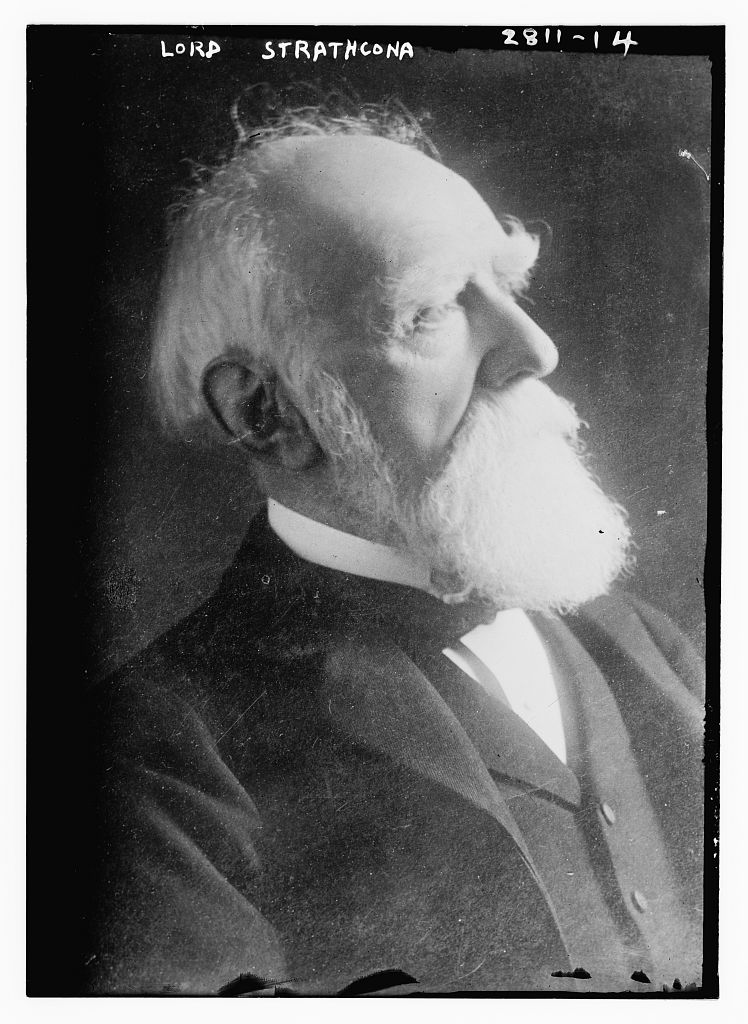 Bain News Service,, publisher. Lord Strathcona circa 1913 [between ca. 1910 and ca. 1915] 1 negative : glass ; 5 x 7 in. or smaller. Notes: Title from unverified data provided by the Bain News Service on the negatives or caption cards. Forms part of: George Grantham Bain Collection (Library of Congress). Format: Glass negatives. Repository: Library of Congress, Prints and Photographs Division, Washington, D.C. 20540 USA, General information about the Bain Collection is available at Persistent URL: Call Number: LC-B2- 2811-14